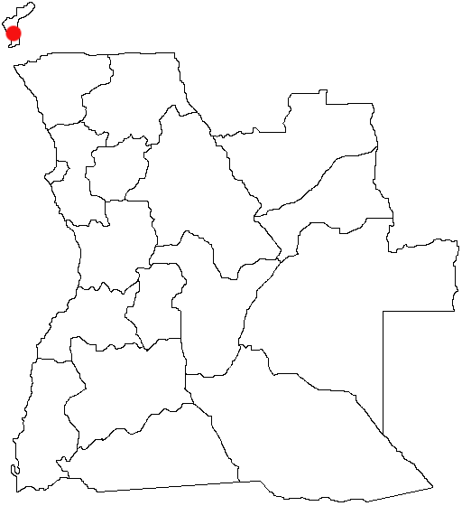 Cabinda, Angola Location Map; created with the GIMP. Made by User:Acntx.